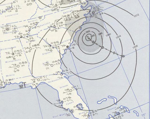 August 17, 1955 weather map, featuring Hurricane Diane